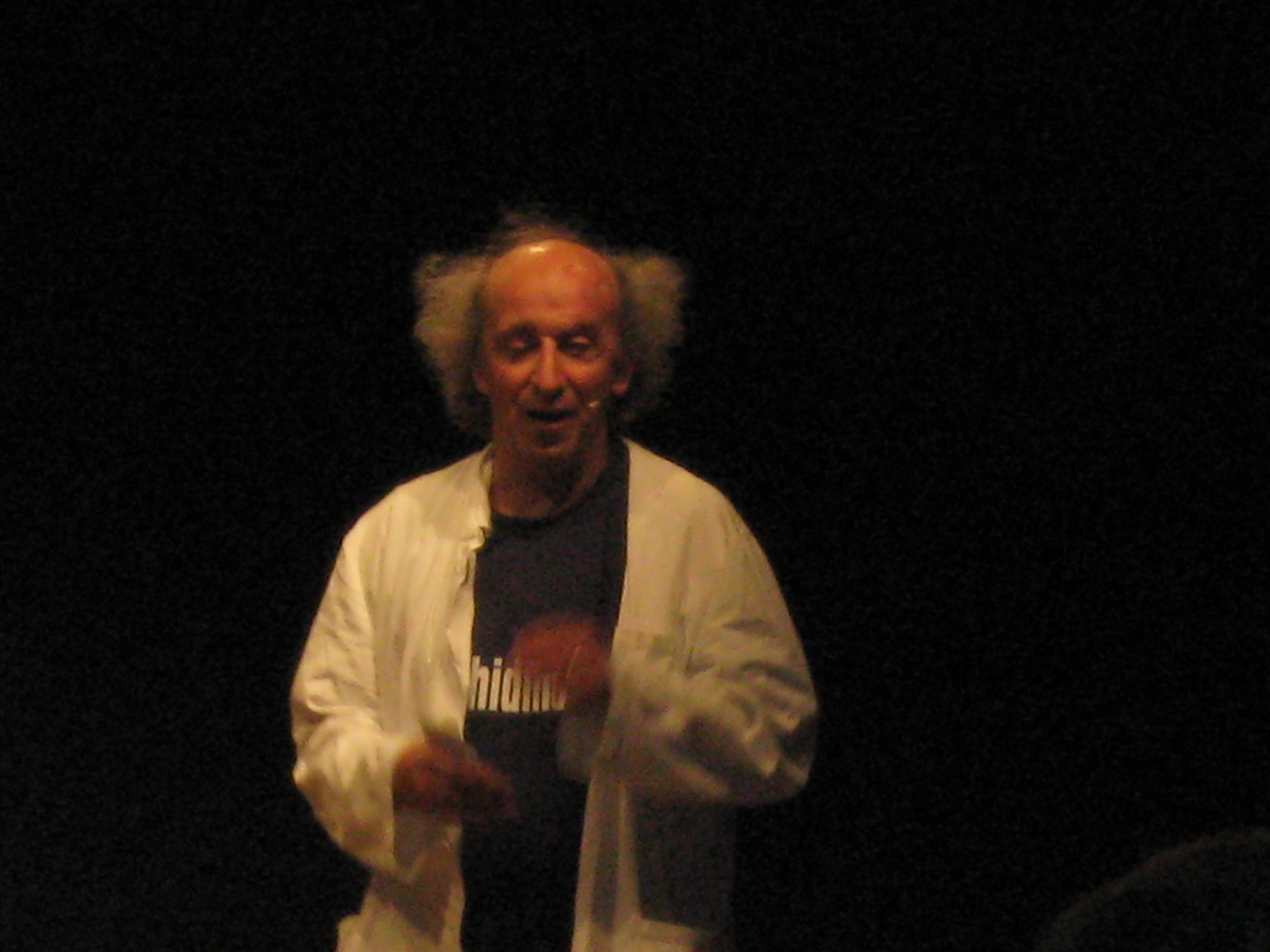 Bruno Arena (I Fichi d'India) in Carate Brianza, Italy